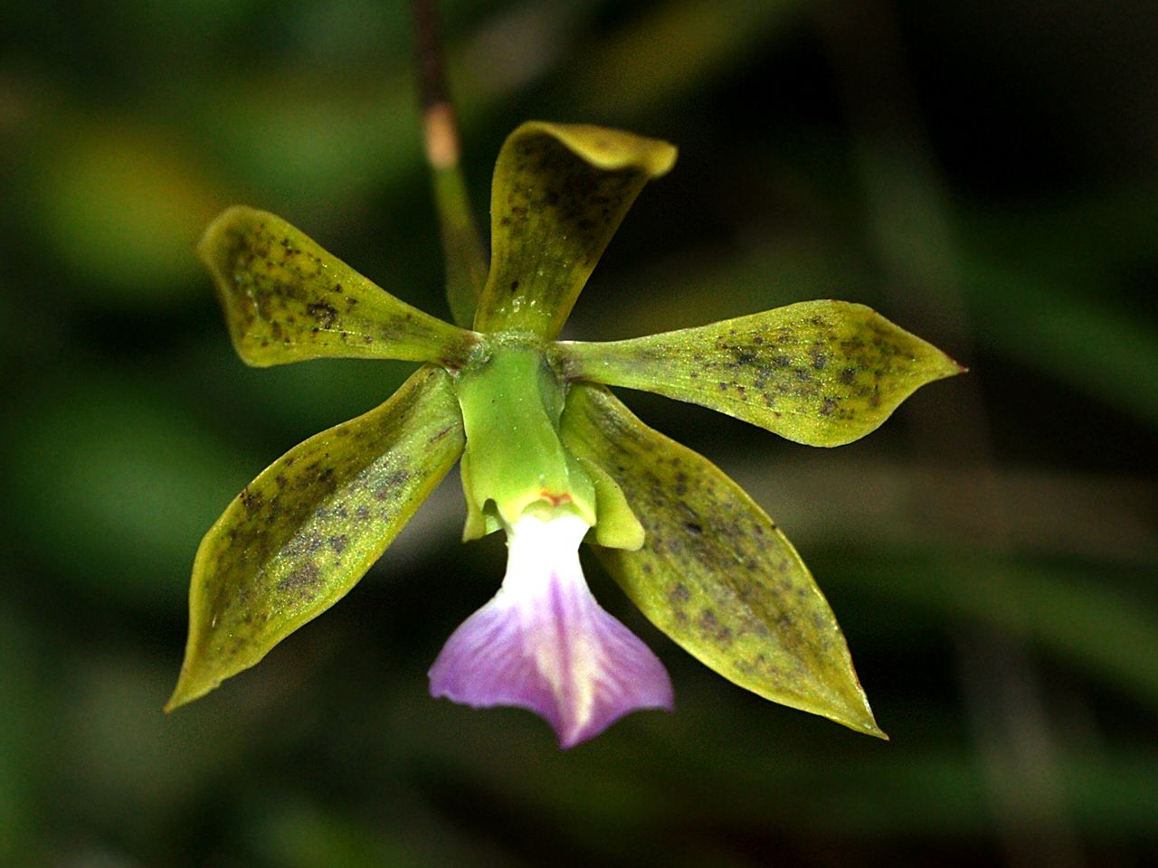 Encyclia bracteata